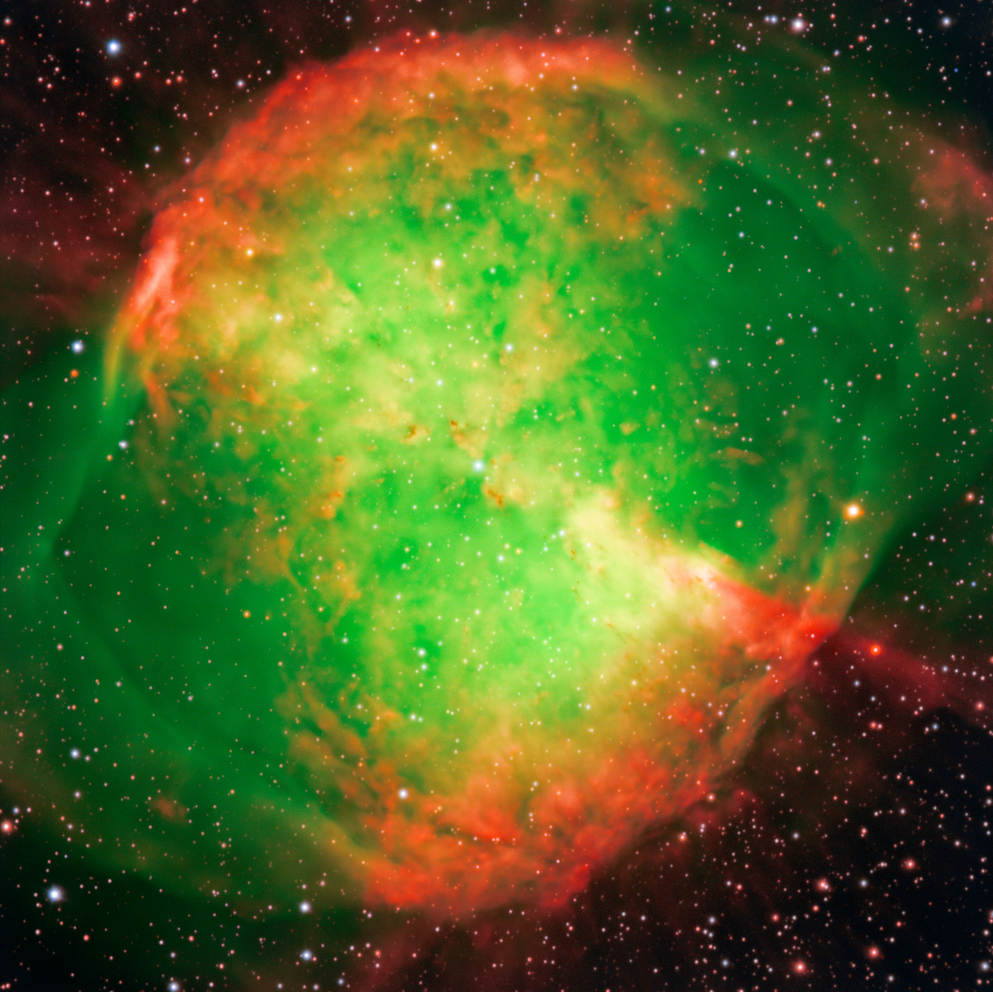 The Dumbbell Nebula — also known as Messier 27 or NGC 6853 — is a typical planetary nebula and is located in the constellation Vulpecula (The Fox). The distance is rather uncertain, but is believed to be around 1200 light-years. It was first described by the French astronomer and comet hunter Charles Messier who found it in 1764 and included it as no. 27 in his famous list of extended sky objects. Despite its class, the Dumbbell Nebula has nothing to do with planets. It consists of very rarified gas that has been ejected from the hot central star now in one of its last evolutionary stages. Colours & filters Band Wavelength Telescope Optical B 429 nm Very Large Telescope FORS1 Optical Oiii 501 nm Very Large Telescope FORS1 Optical H-alpha 656 nm Very Large Telescope FORS1 .